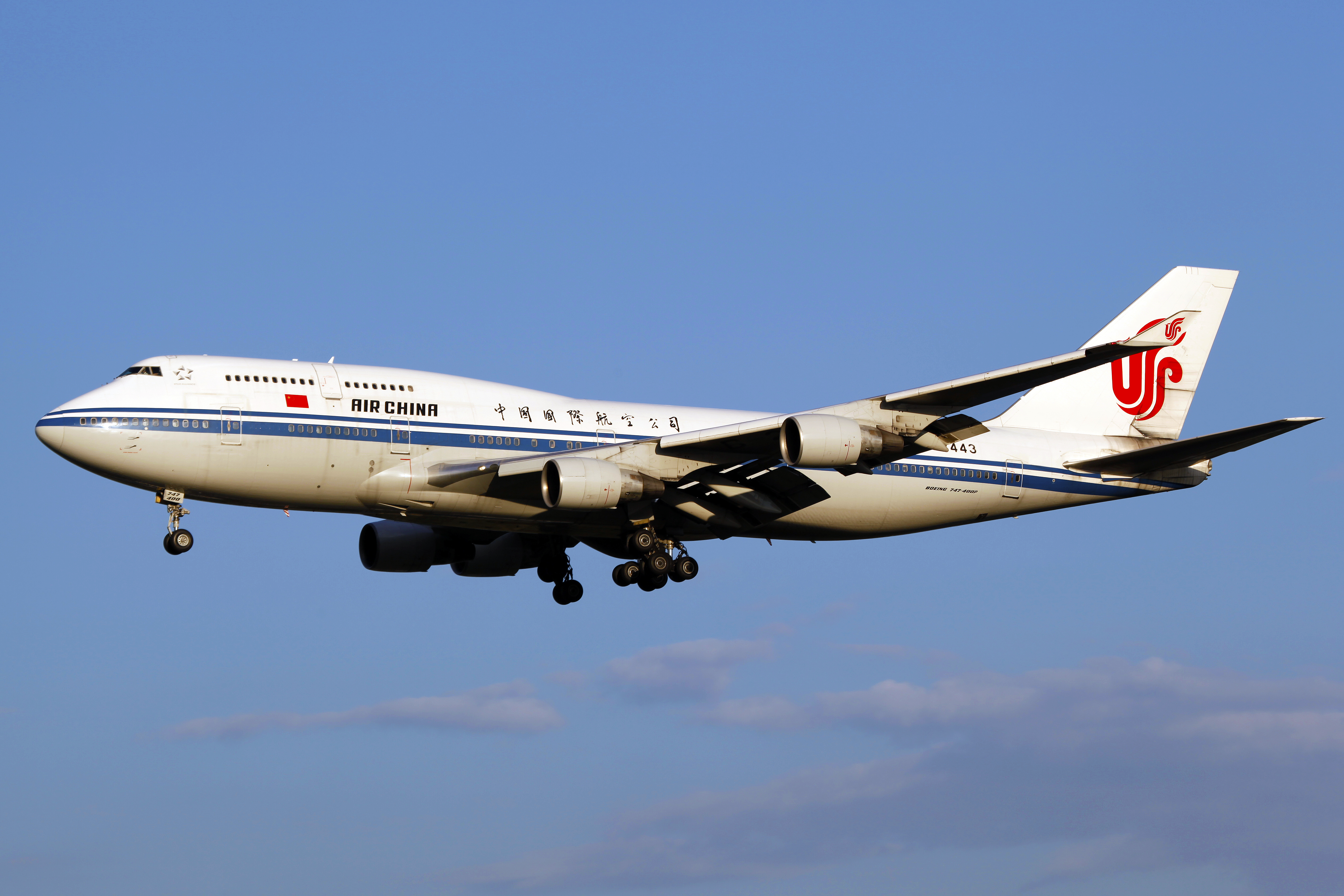 B-2443 | Air China | Boeing 747-4J6 | Beijing Capital International Airport [PEK]